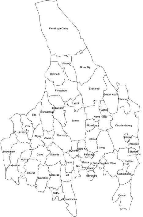 Municipalities of Värmland County before 1970.